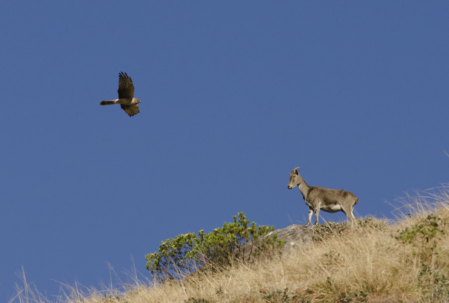 An Adult Male Nilgiri Thar (Endangered as per IUCN) and a Pallid Harrier (female) face-off.